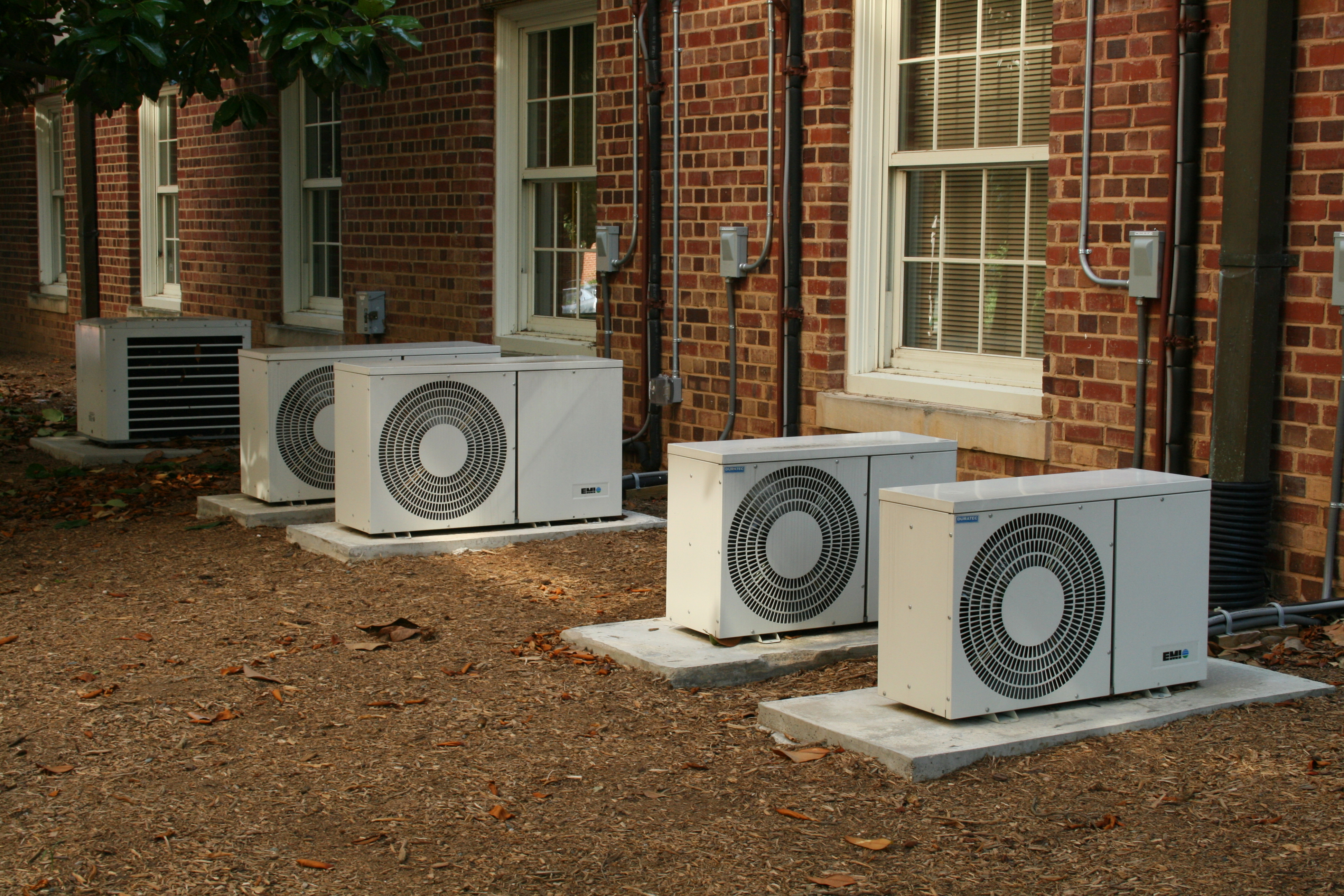 Series of air conditioners at UNC-CH.